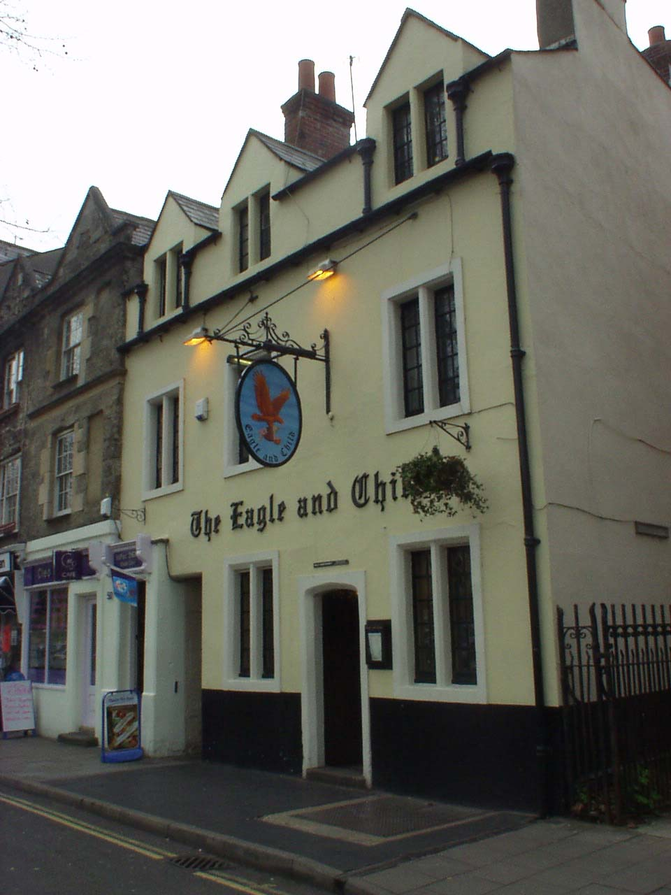 The Eagle and Child, pub in Oxford, England; photograph taken by MPerel, April 2002